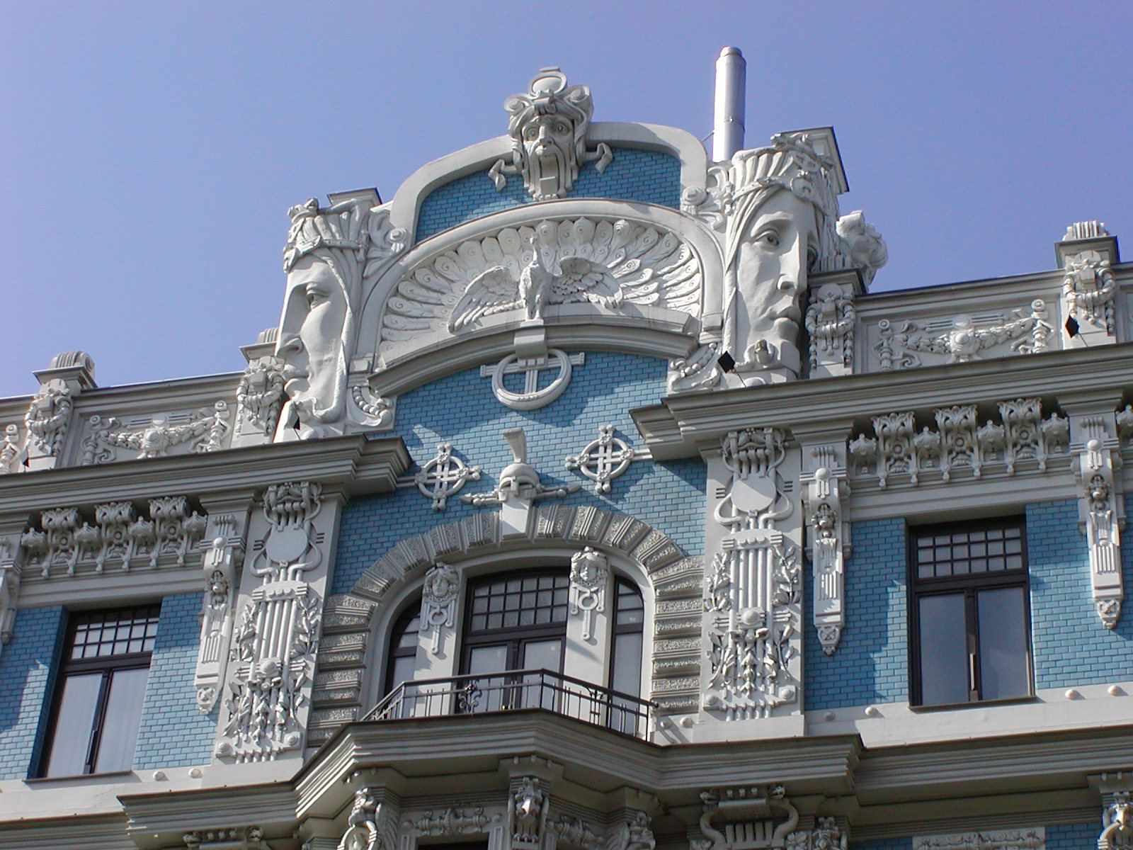 Building at Elizabetes Iela 10b, architect Mikhail Eisenstein